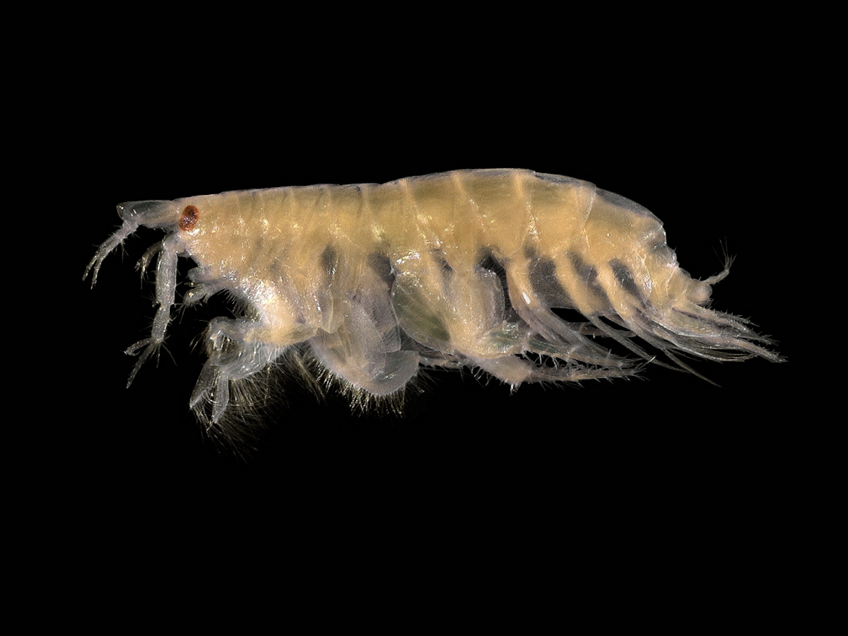 Burying amphipod from subtidal sandy substrates.Camera mounted on a Zeiss Stemi C-2000 binocular microscopeLength: ~5 mm.Belgian Continental Shelf.